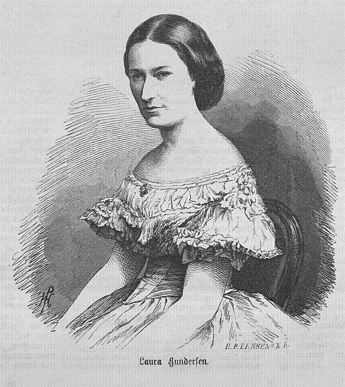 Kobberstikk av Laura Gundersen fra Illustrert Nyhedsblad, 8. januar 1865